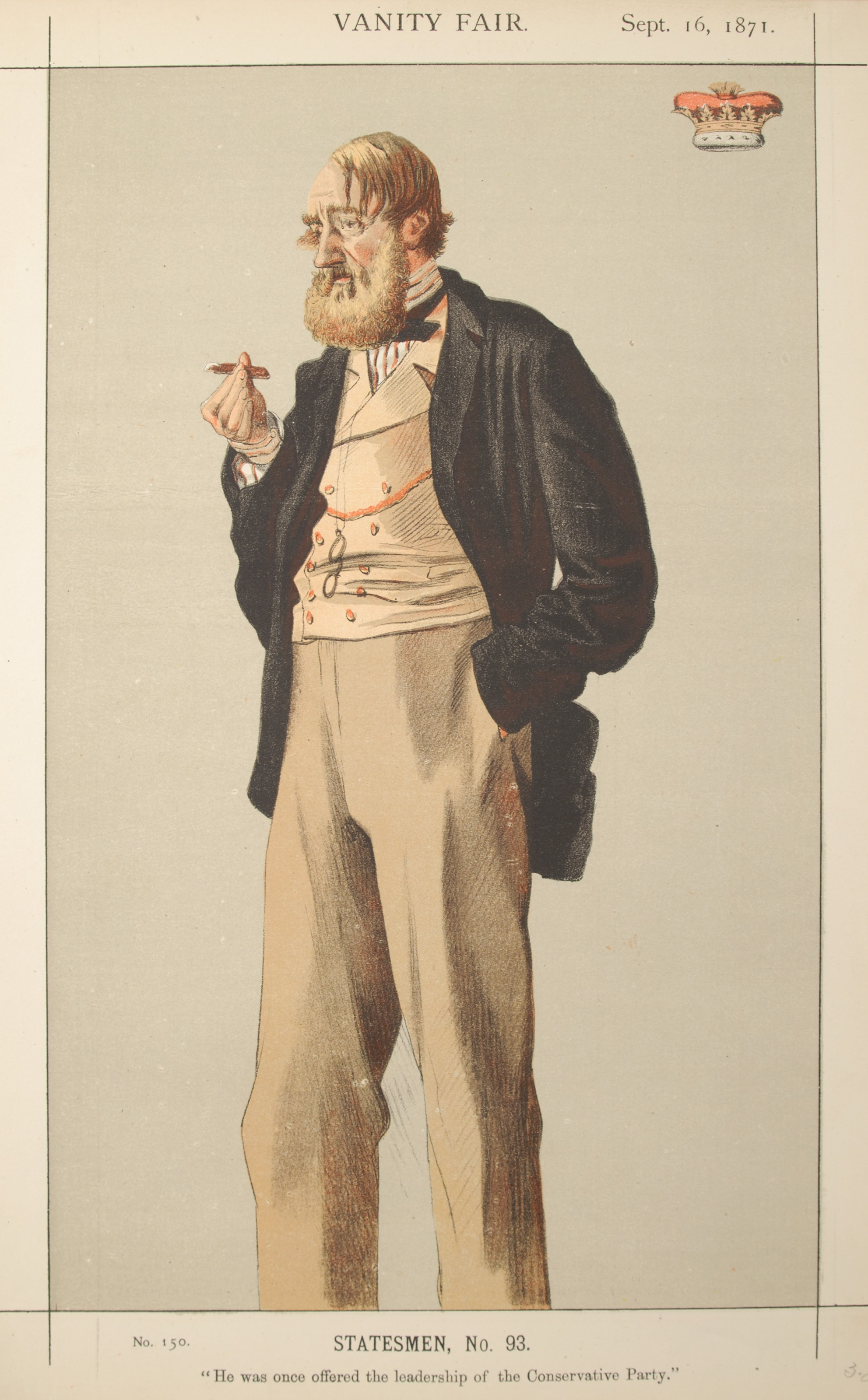 Statesmen No.93: Caricature of The Duke of Rutland. Caption reads: "He was once offered the leadership of the Conservative Party."